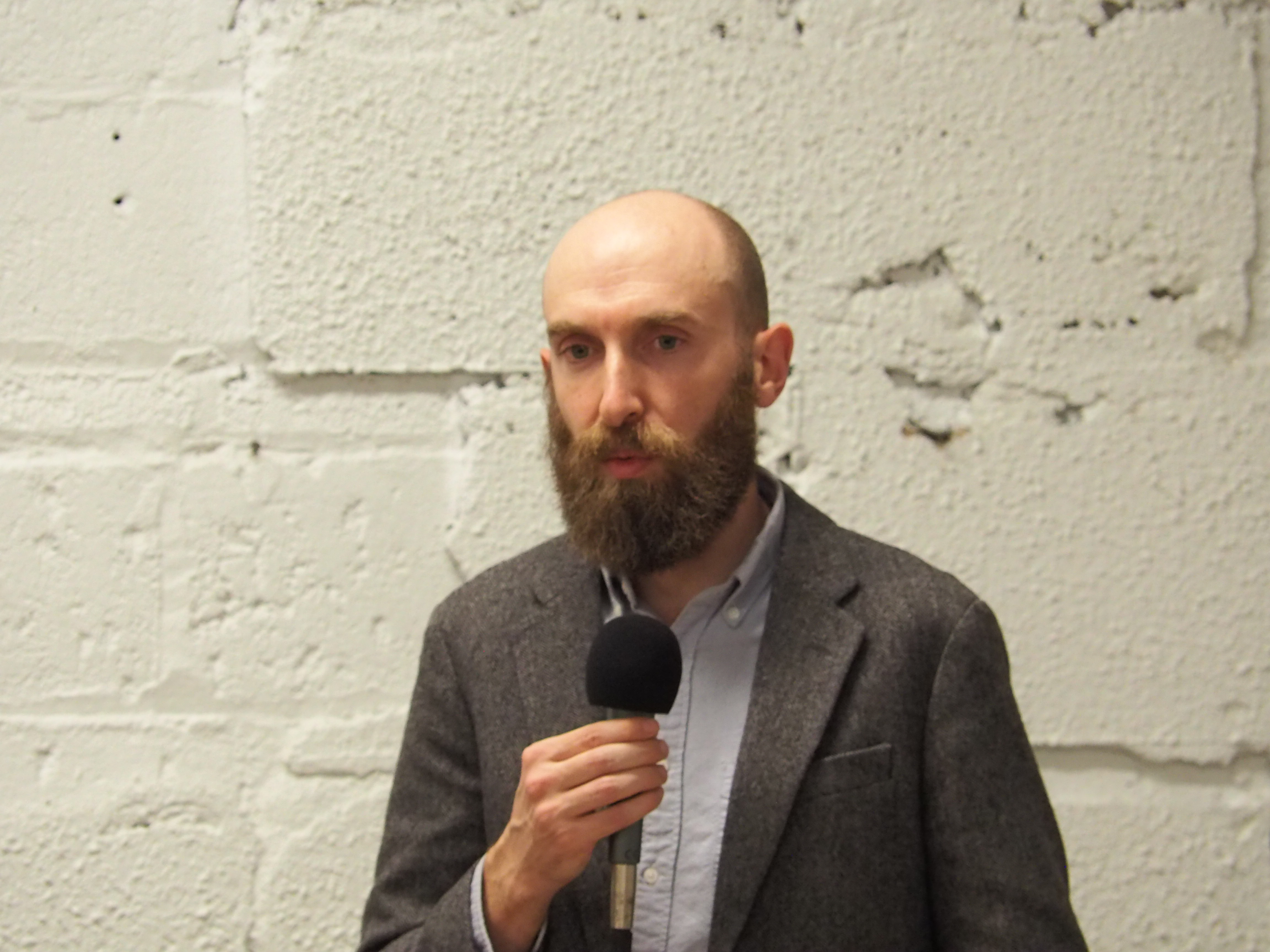 Andy Greenberg